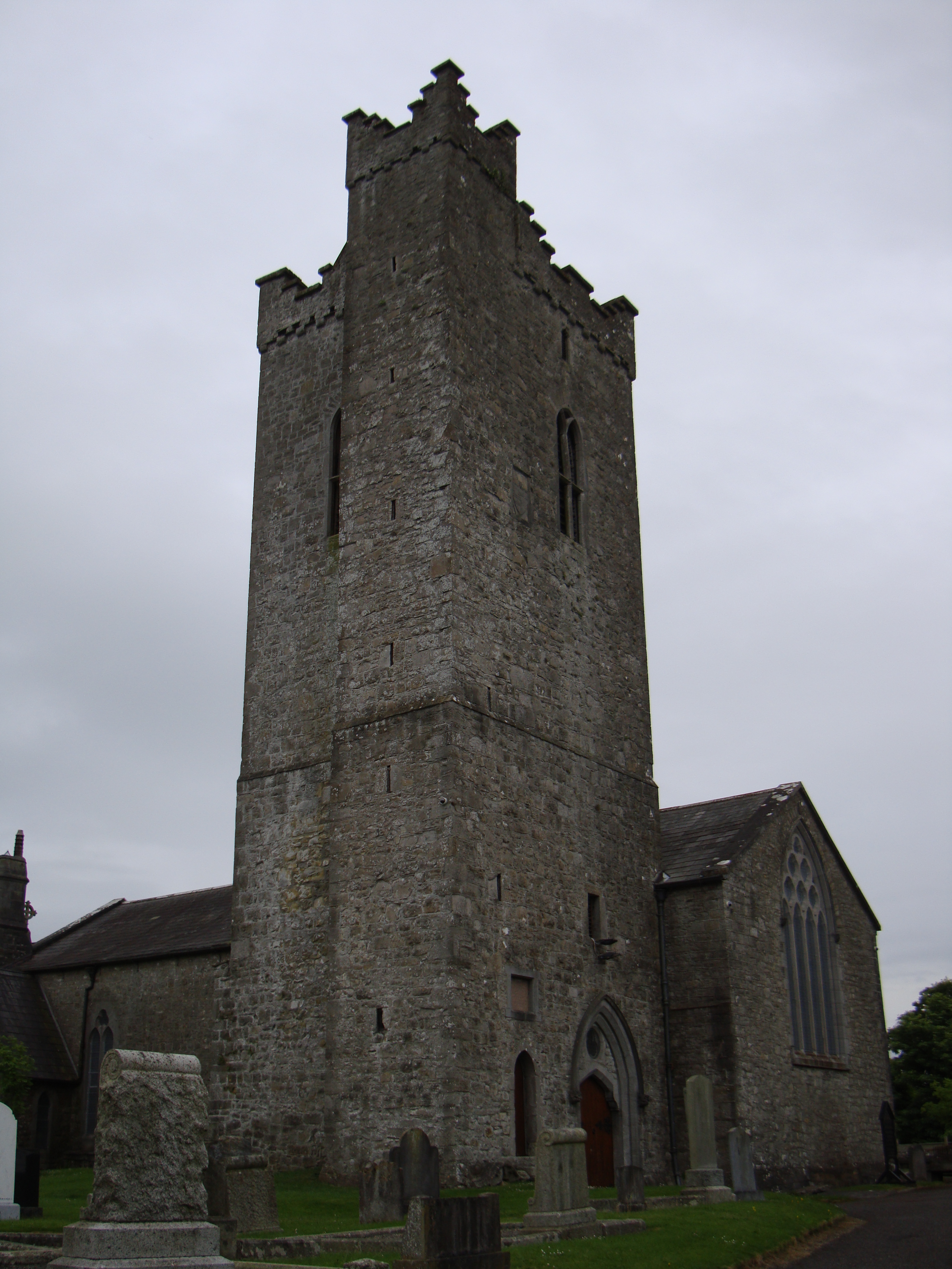 Photograph of Trim Cathedral, Co. Meath, Ireland